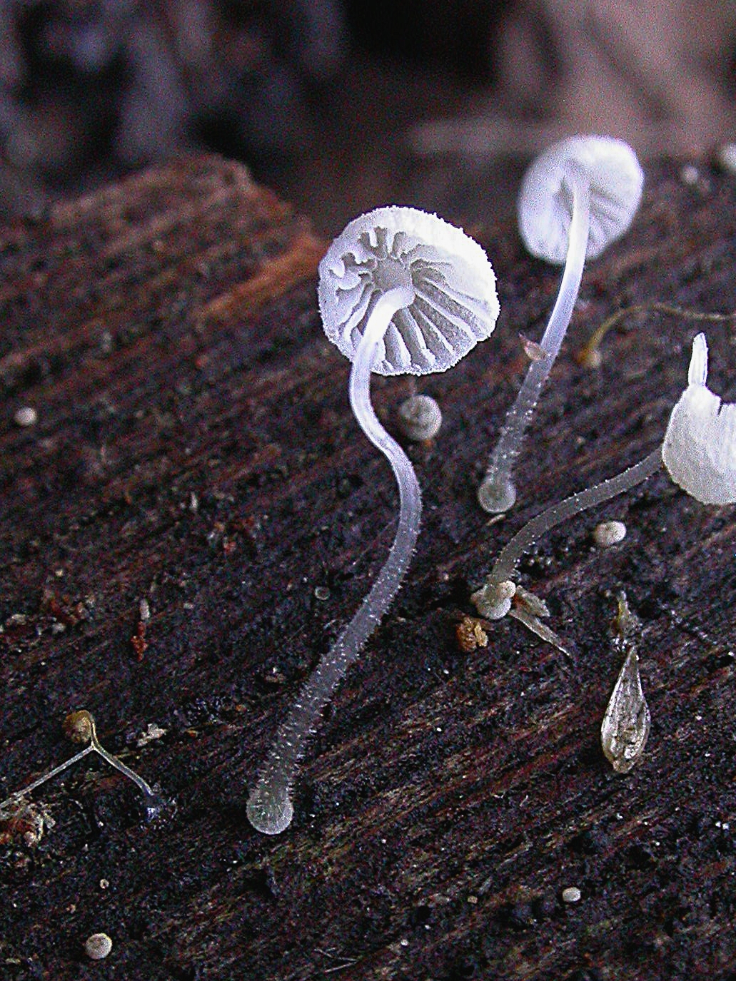 The fruit bodies of the fungus Mycena adscendens (Lasch) Maas Geest. Specimens photographed in Joaquin Miller Park, Oakland, California, USA.